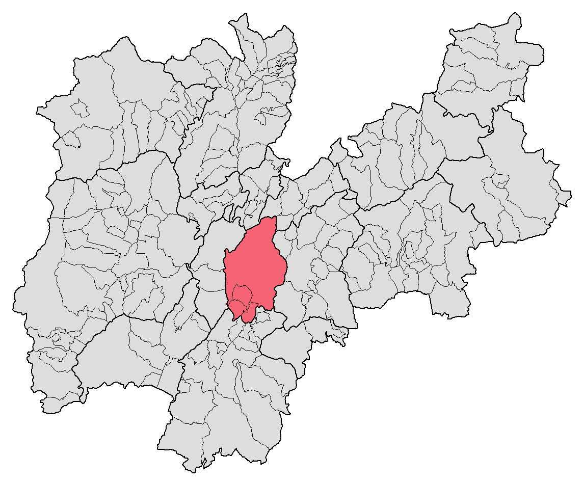 Location map of "Territorio della Val d'Adige" (15)